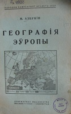 Book cover. Mikalay Azbukin